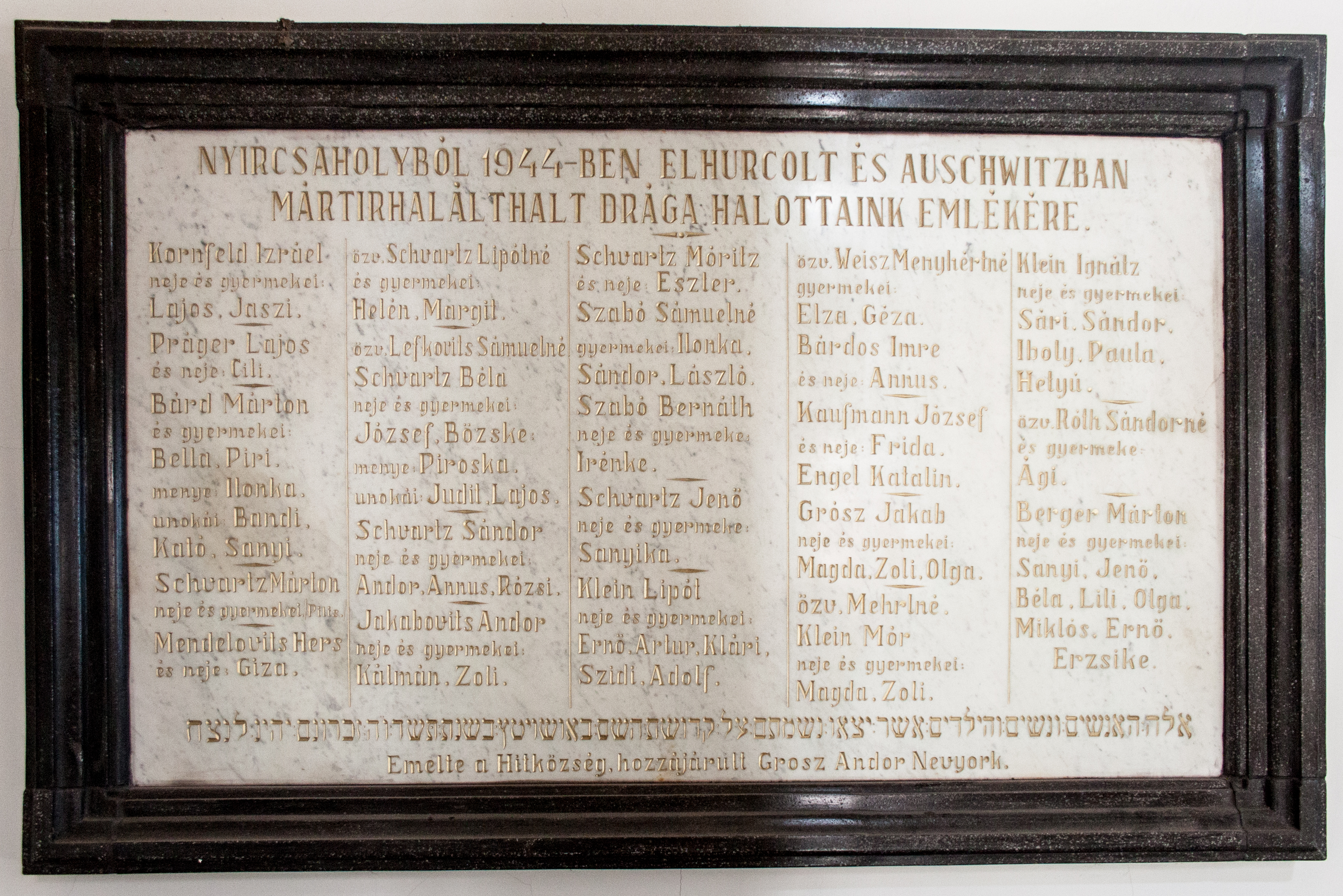 Plaque of the Jewish martyrs of Nyírcsaholy in the Synagogue in Mátészalka